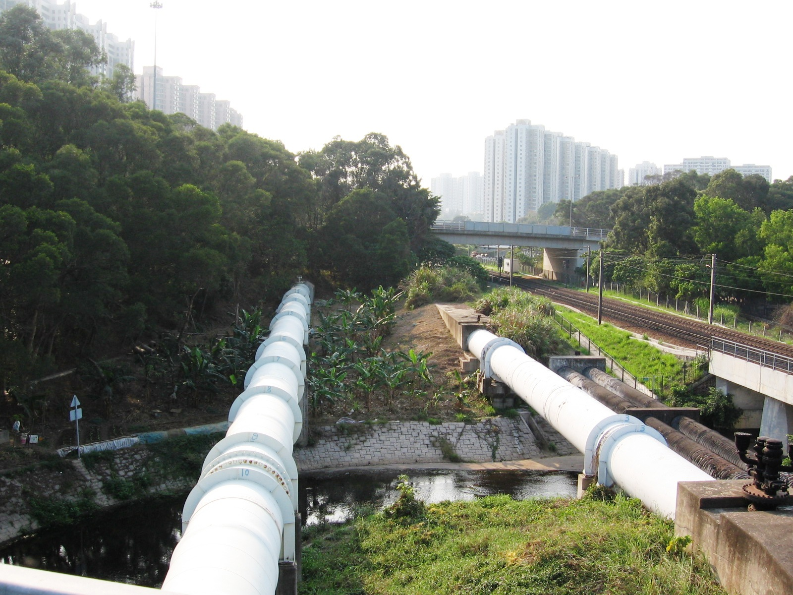 Ma Wat River under water pipe near East Rail Line, 2010